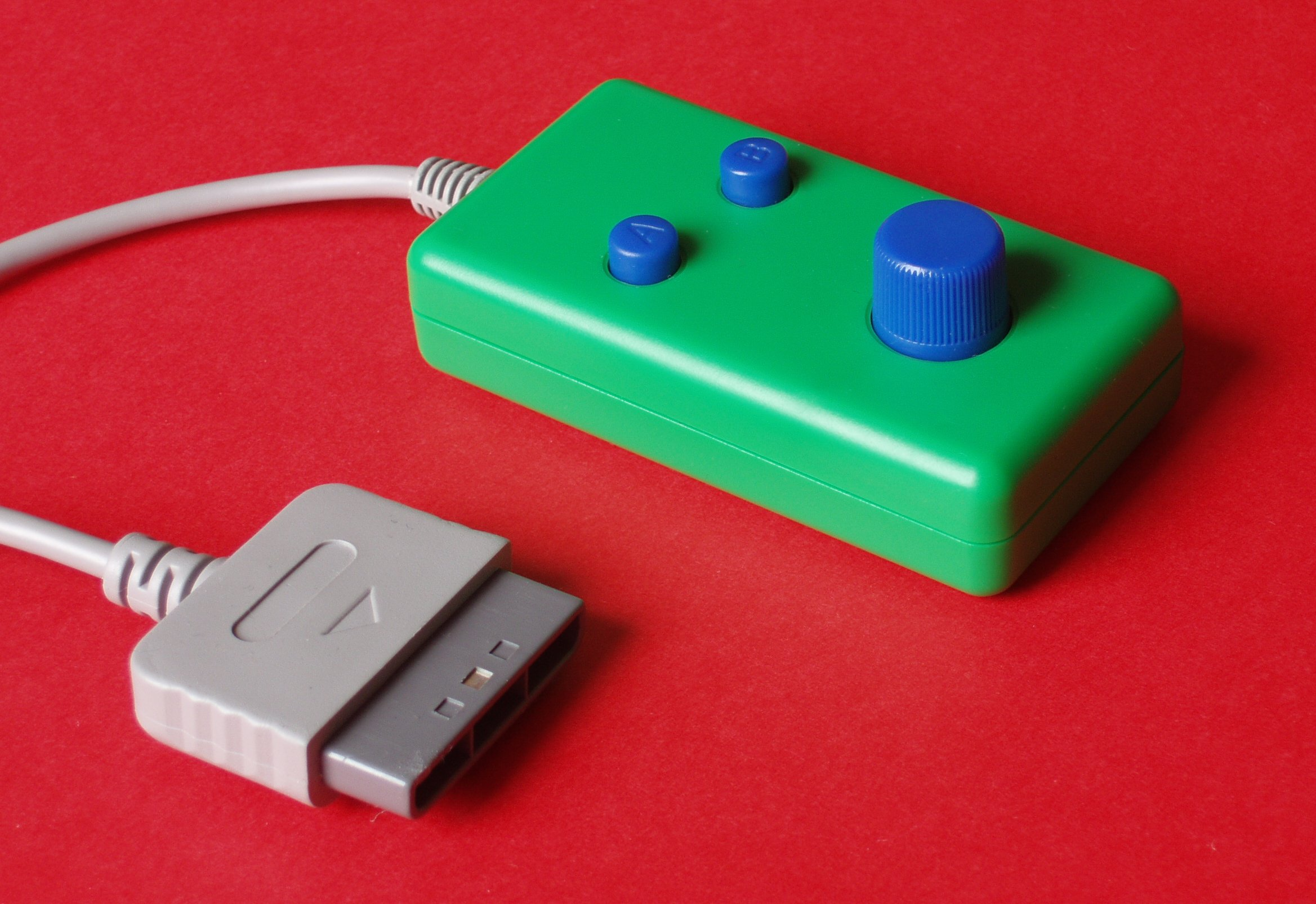 A photograph of the Puchi Carat retro controller, for the Sony PlayStation